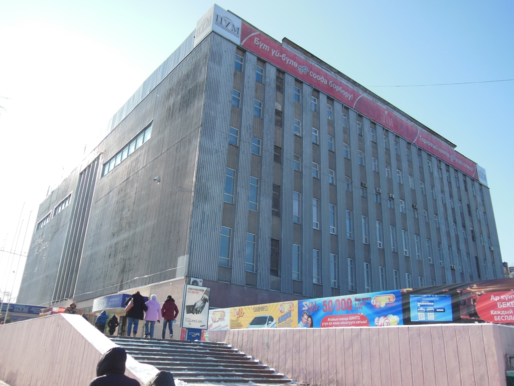 Central Department Store in Bishkek